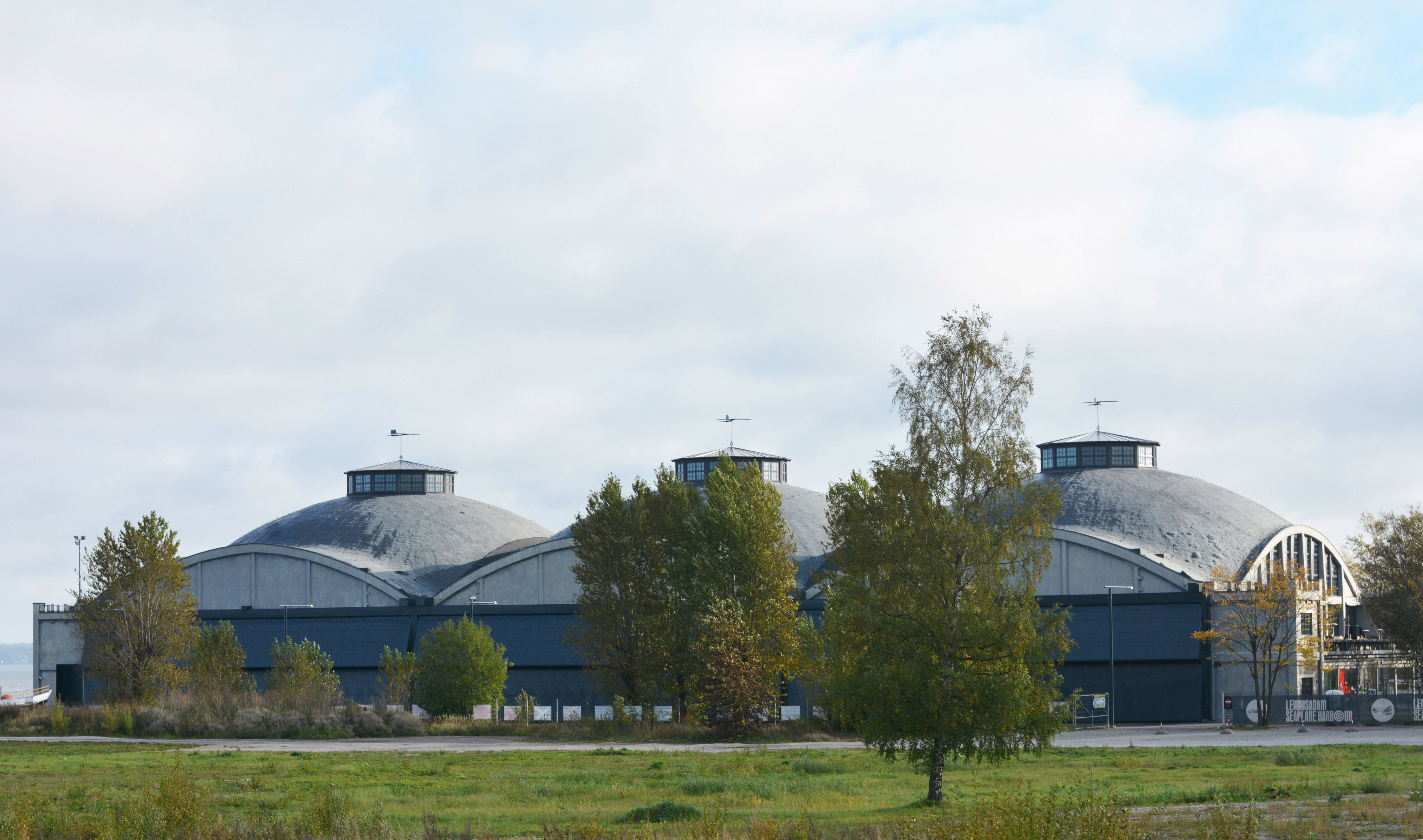 Seaplane Hangars in Tallinn